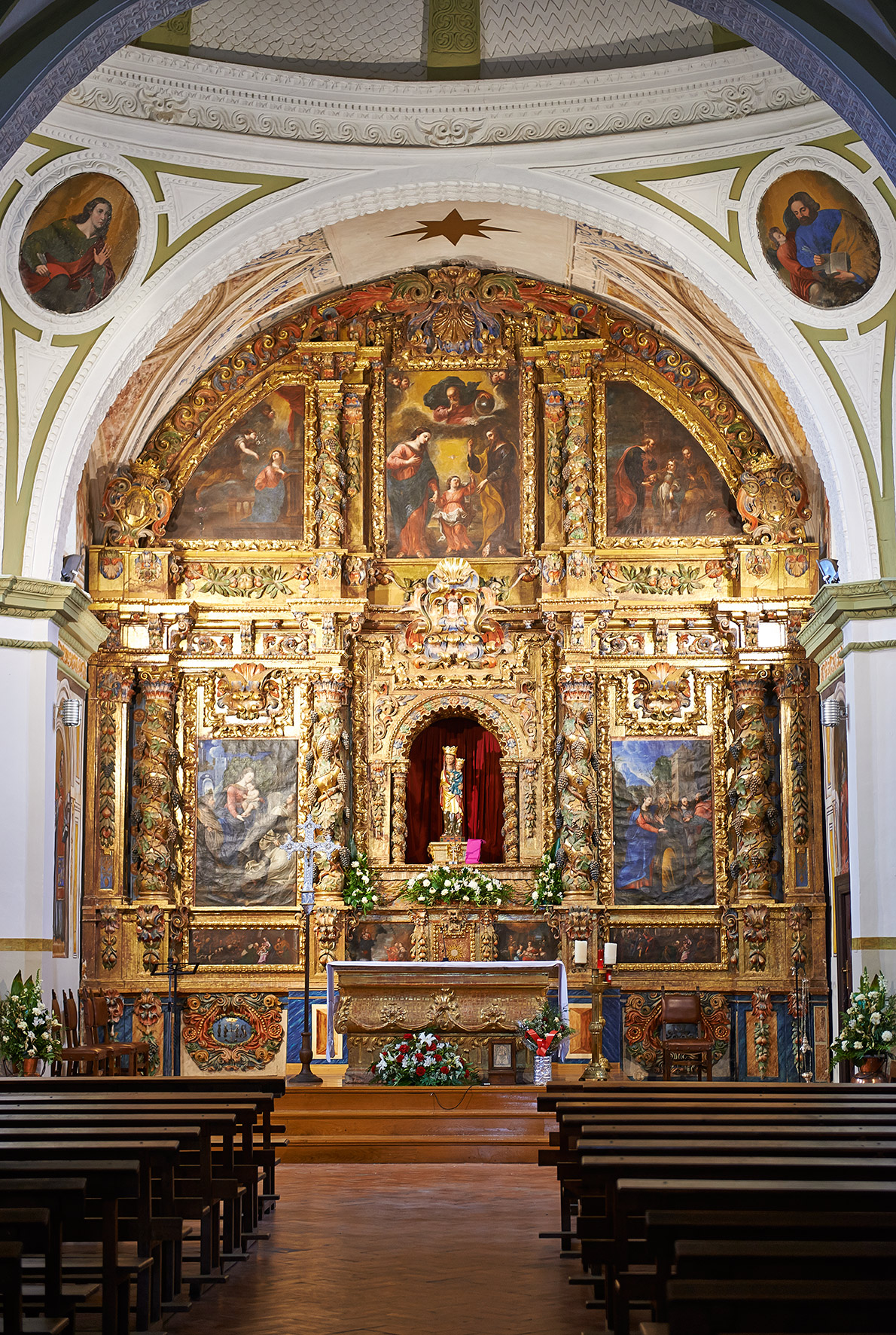 barocue altar from Virgen del Yugo church (Arguedas, Navarra, Spain)